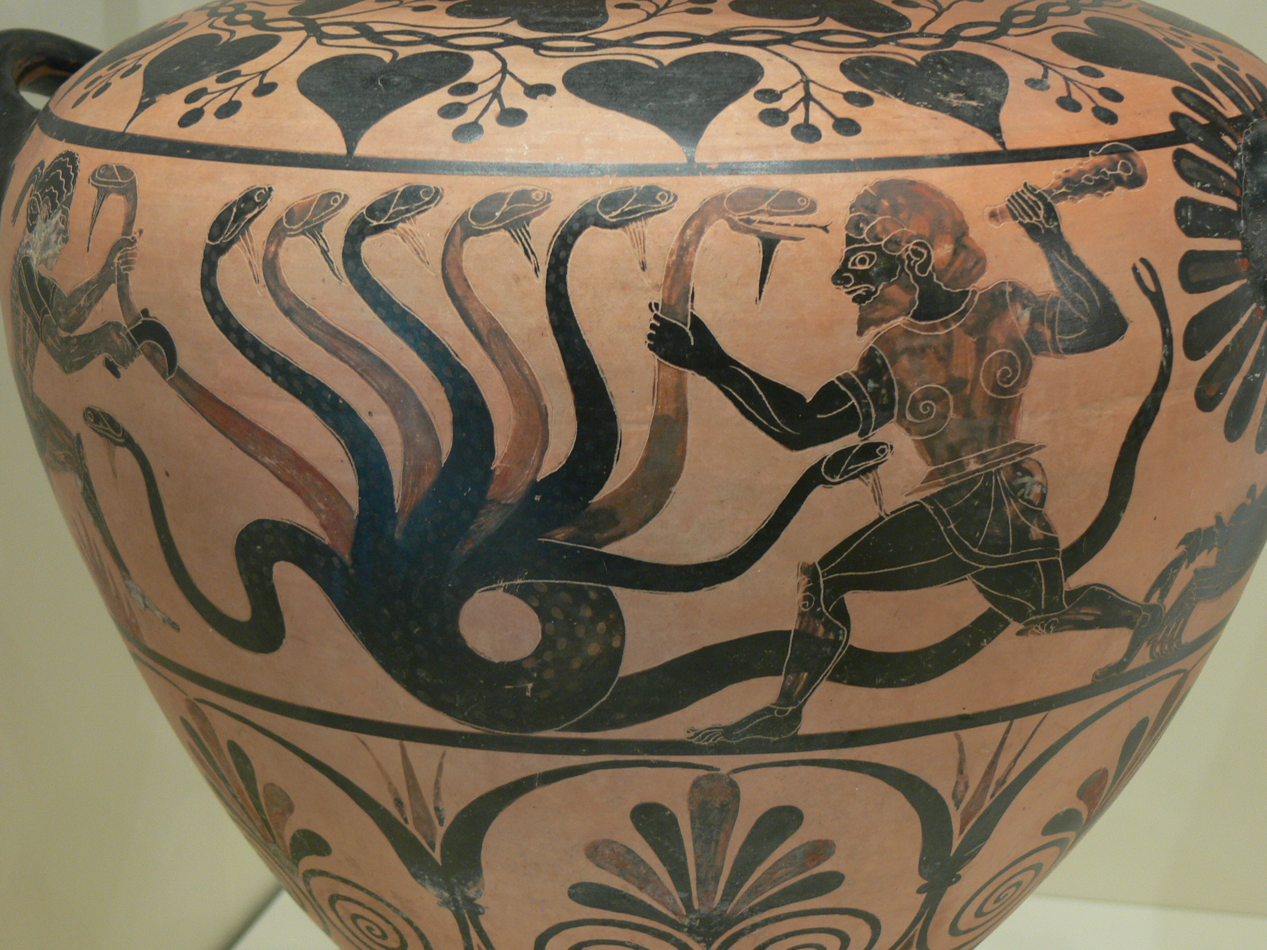 On the belly: Herakles, Iolaos, and the Lernean Hydra; two sphinxes on the reverse; and a crab under the horizontal handle. Etruscan pottery — at the Getty Villa, Los Angeles, California.Etruscan hydrya detail.